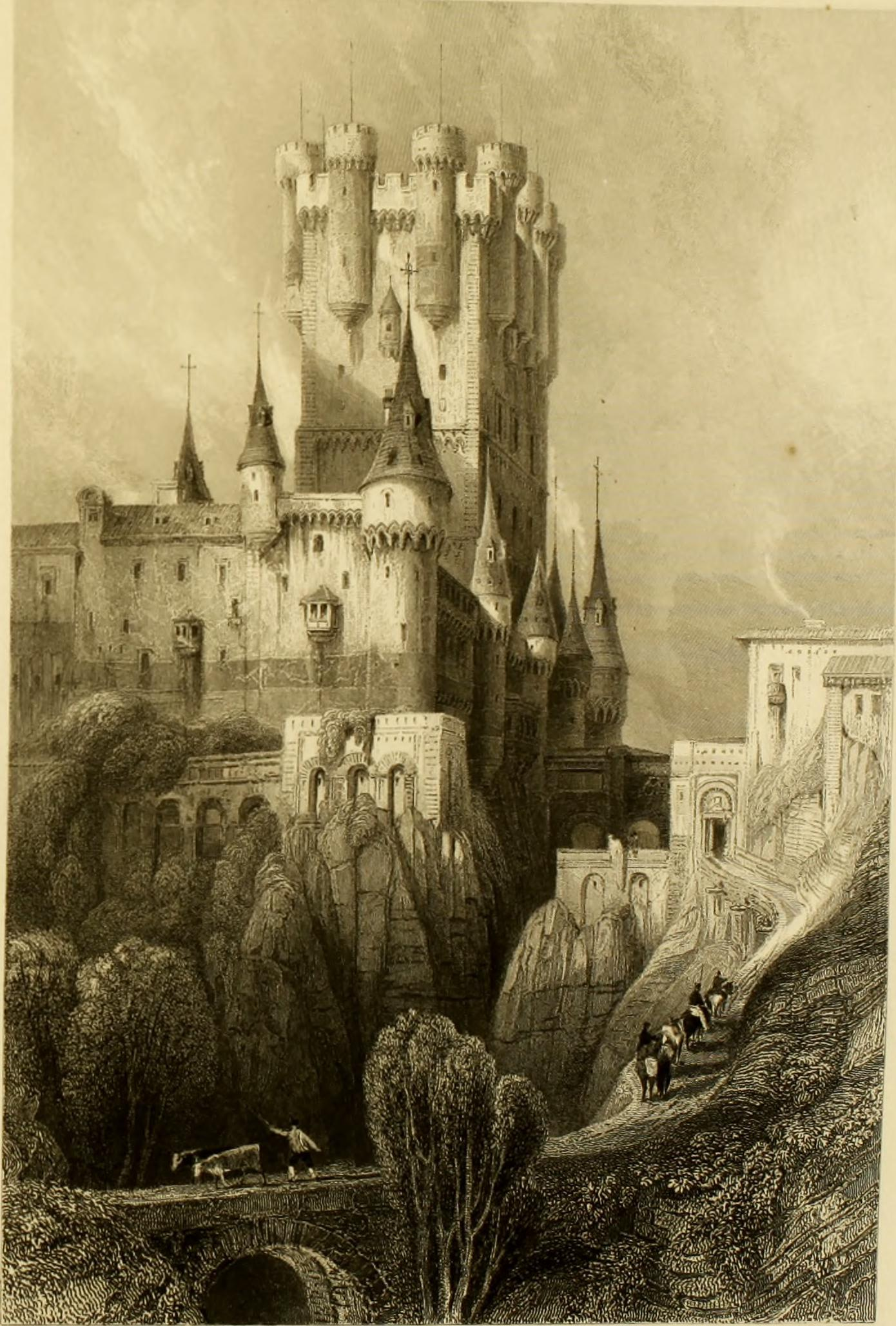 Title: Alcázar of Segovia. Picturesque views in Spain and Morocco : comprising Granada, with the palace of the Alhambra, Andalosia, Castile, Valencia, Gibraltar, Tangiers, Tetuan, Morocco, the town of Constantina, etc. Year: 1838 (1830s) Authors: Roberts, David, 1796-1864; Manning, Samuel Roberts, David, 1796-1864, signer. UPB Subjects: Publisher: London : Robert Jennings Text Appearing Before Image: ' Text Appearing After Image: '